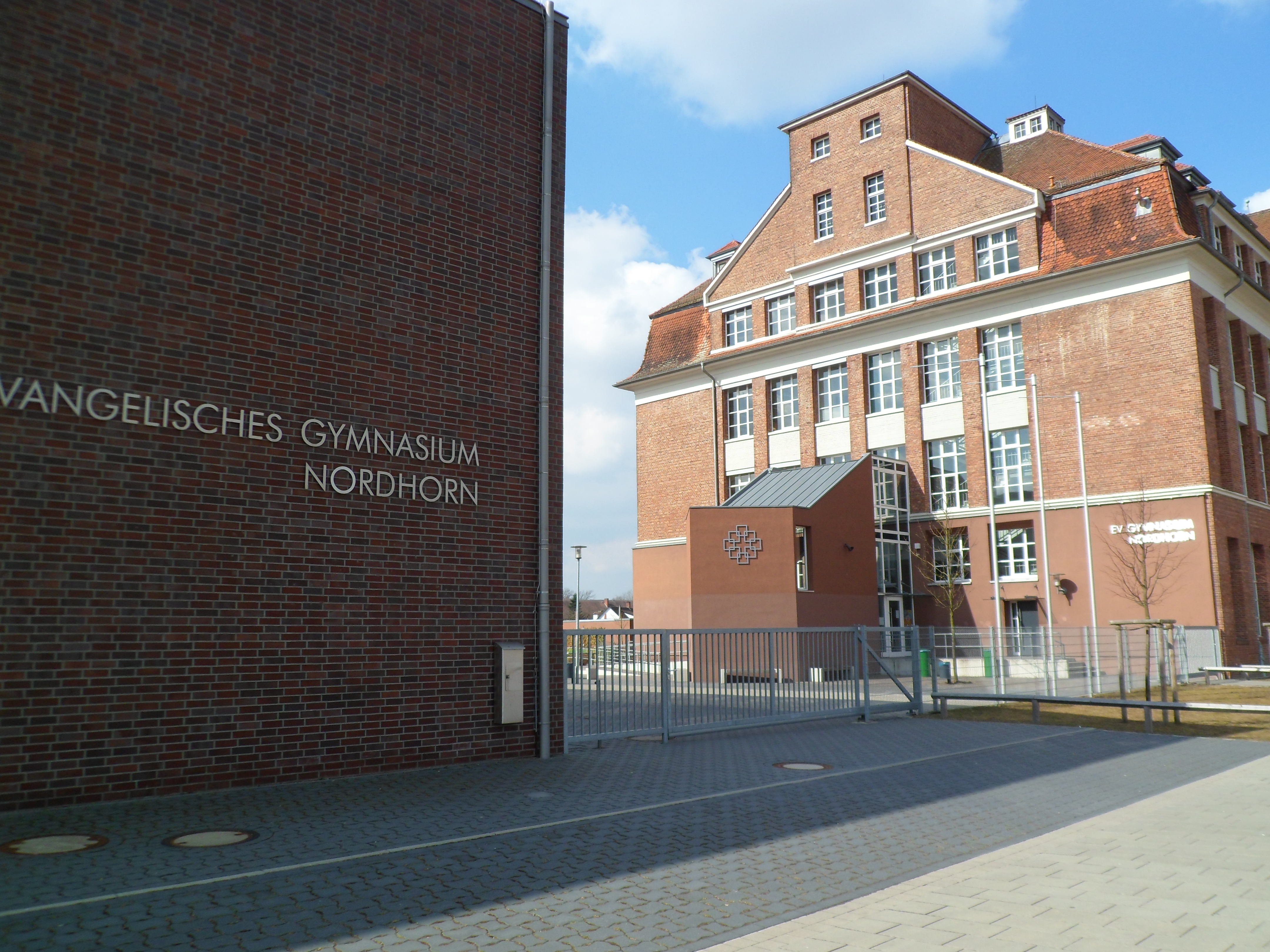 Evangelisches Gymnasium Nordhorn in Nino-Rohgewebelager und moderner Anbau